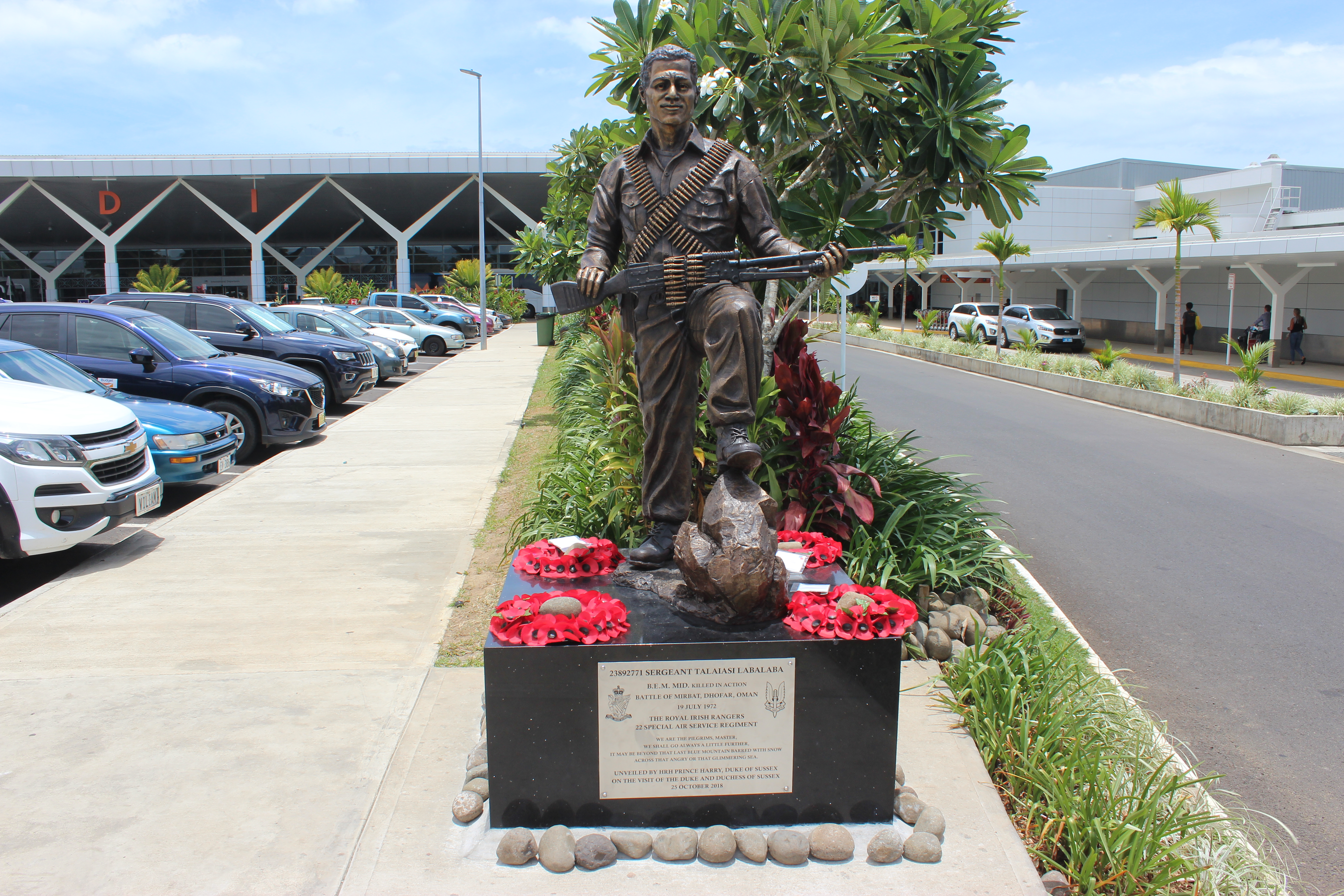 Statue of Talaiasi Labalaba